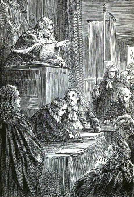 A 19th-century artist's impression of Lord Chief Justice George Jeffreys presiding over the "Bloody Assizes" in 1685, following the failed Monmouth Rebellion.